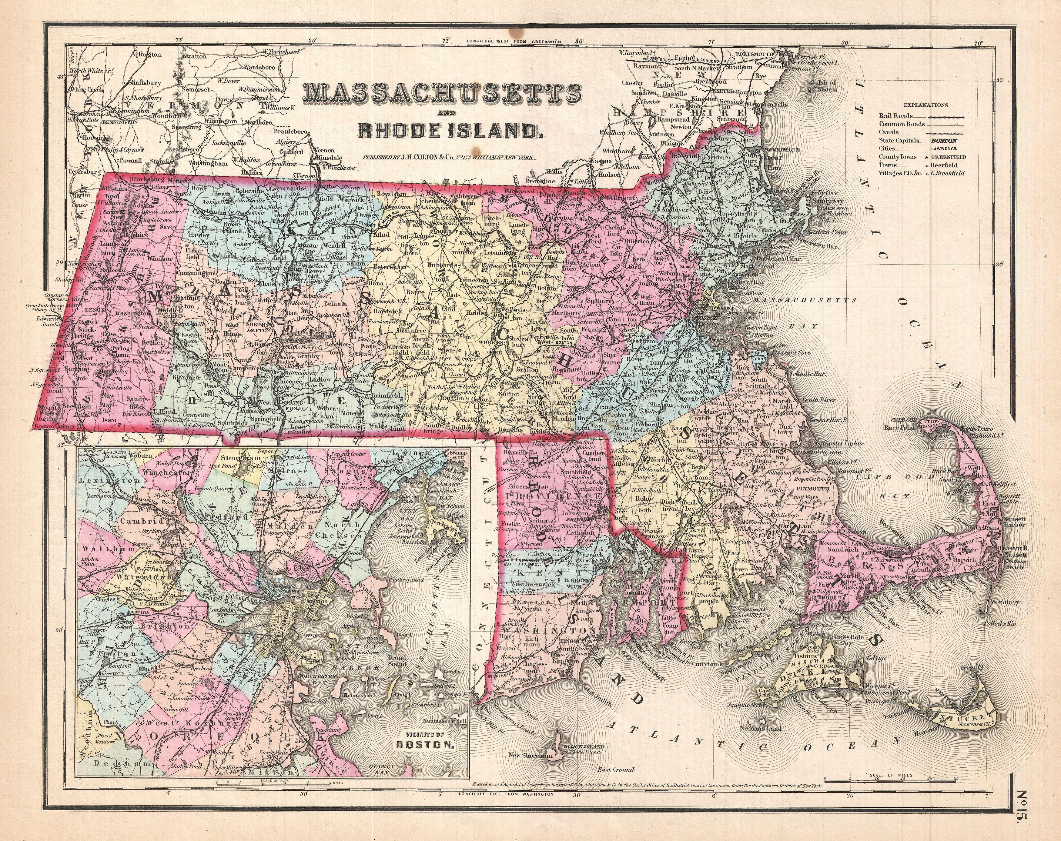 This is the uncommon 1857 issue of J. H. Colton’s map of Massachusetts and Rhode Island. Covers both states in their entirety along with a detailed inset of the vicinity of Boston. Divided and color coded according to county. Shows major roadways and railroads as well as geological features such as lakes and rivers. Like most Colton maps this map is dated 1855, but most likely was issued in the 1857 issue of Colton’s Atlas . This was the only issue of Colton's Atlas that appeared without his trademark grillwork border. Dated and copyrighted: “Entered according to the Act of Congress in the Year of 1855 by J. H. Colton & Co. in the Clerk’s Office of the District Court of the United States for the Southern District of New York.” Published from Colton’s 172 William Street Office in New York City, NY.